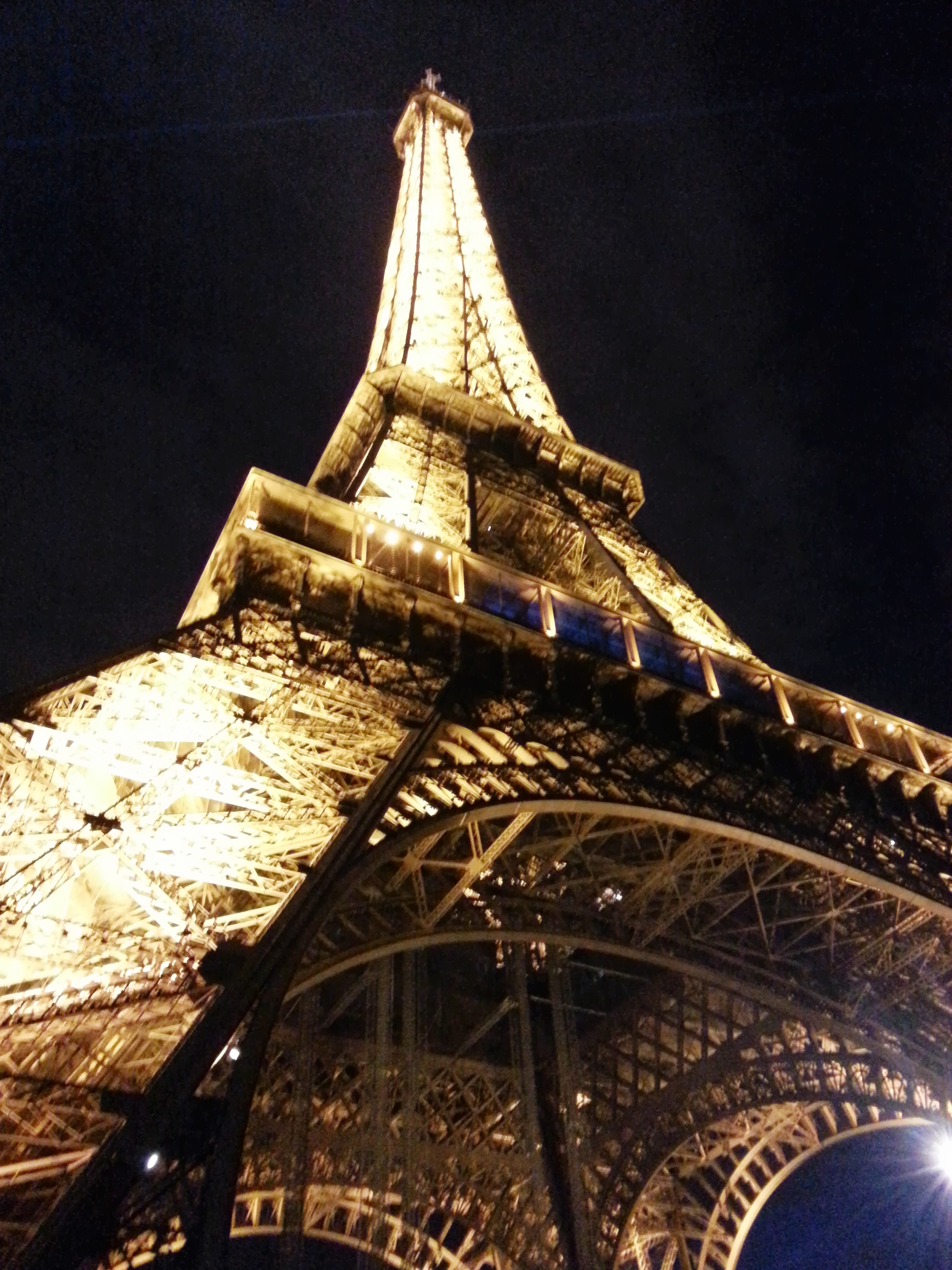 Angled shot showcasing the illuminated Eiffel Tower.